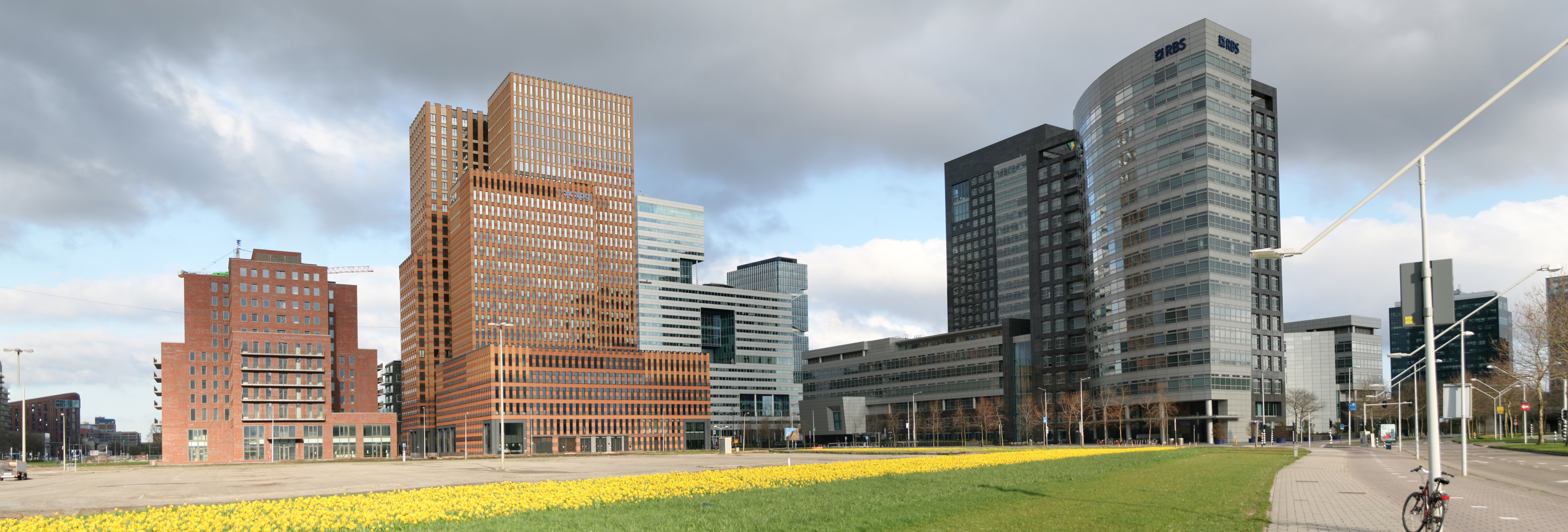 A view of the Zuidas business district in Amsterdam, the Netherlands. The photo is stitched from two rows of four photos.